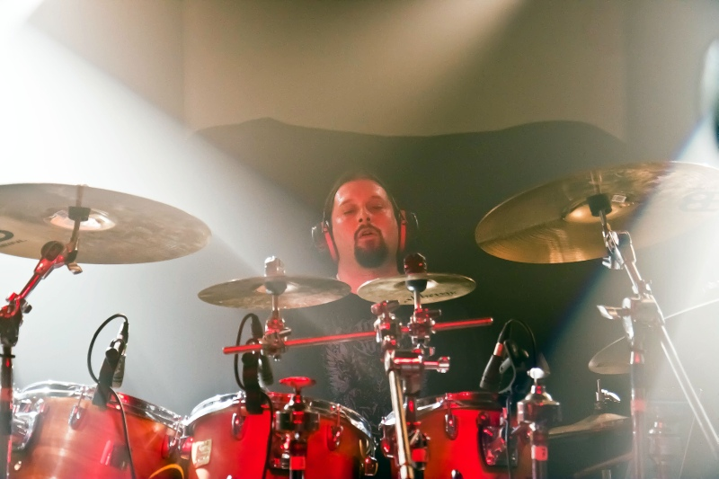 Krzysztof Szałkowski of Lost Soul Polish death metal band, Kraków, Loch Ness, 26.08.2010